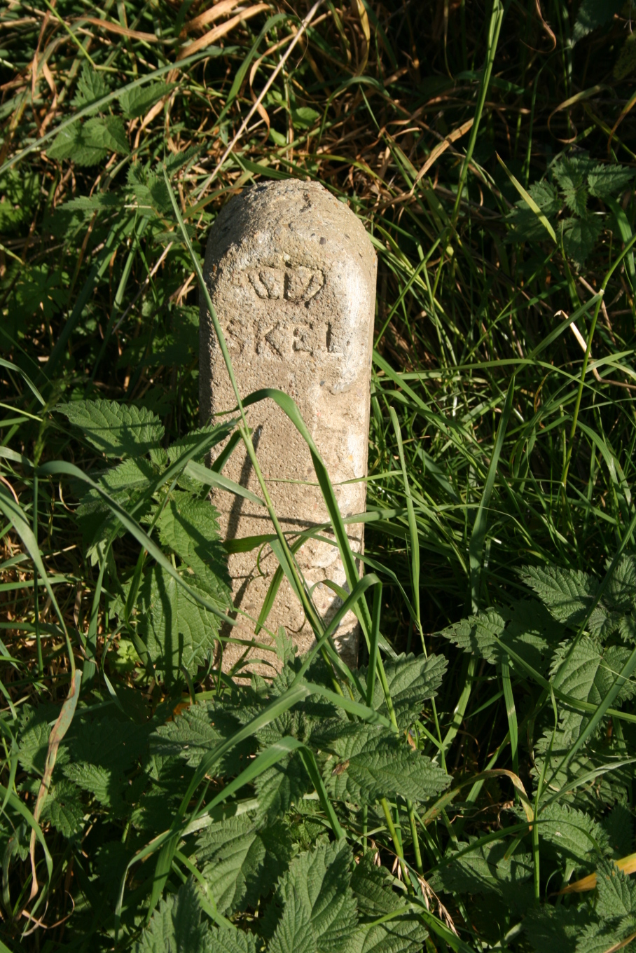 Boundary stone or marker. It marks the limit between a private land-holdings and a public road.